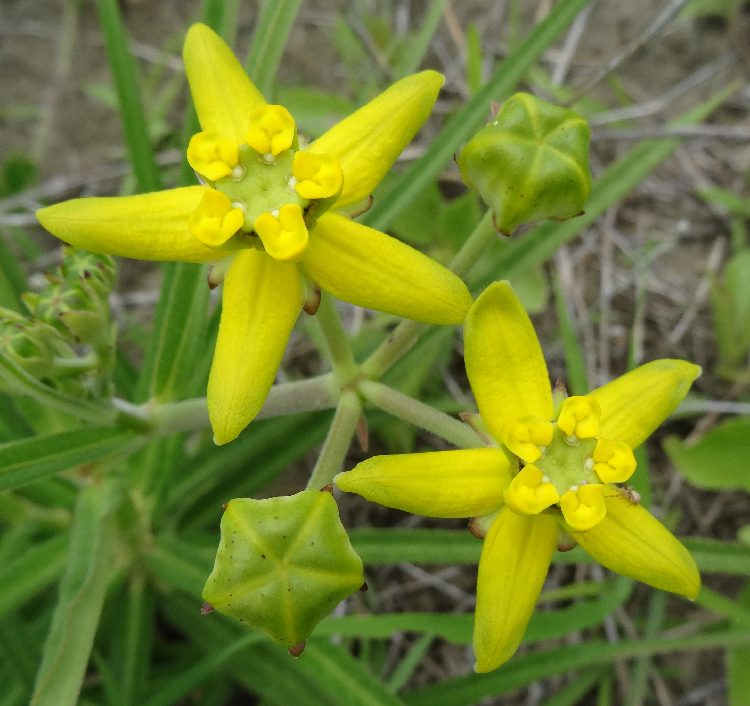 Stathmostelma fornicatum, Family: Apocynaceae (Asclepiadaceae), Metuge District, on Pemba Bay in Northern Mozambique.